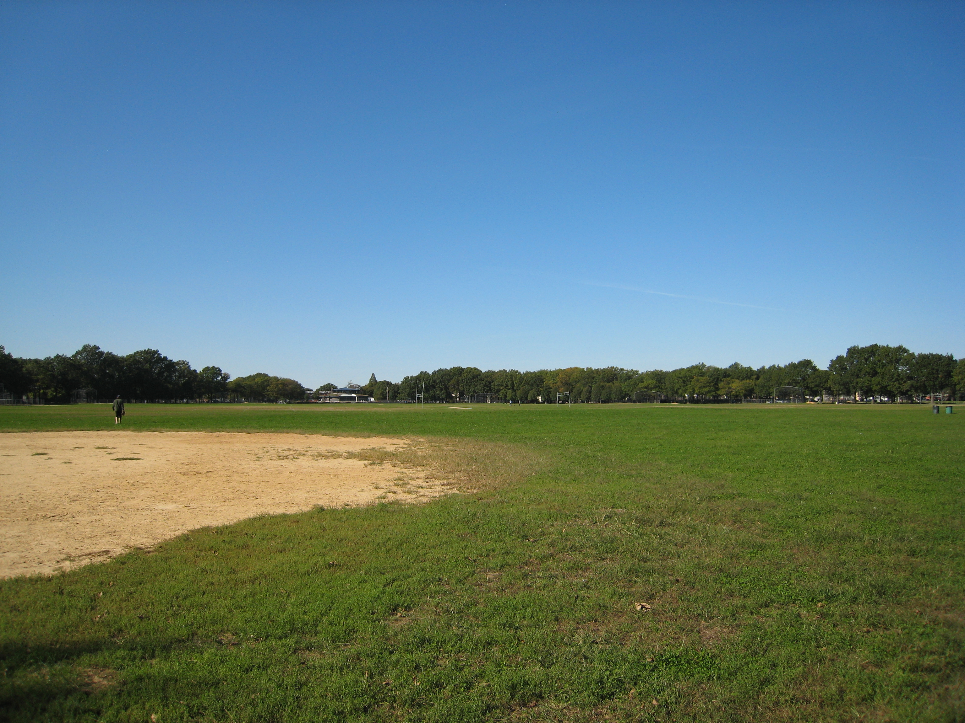 Marine Park, Brooklyn